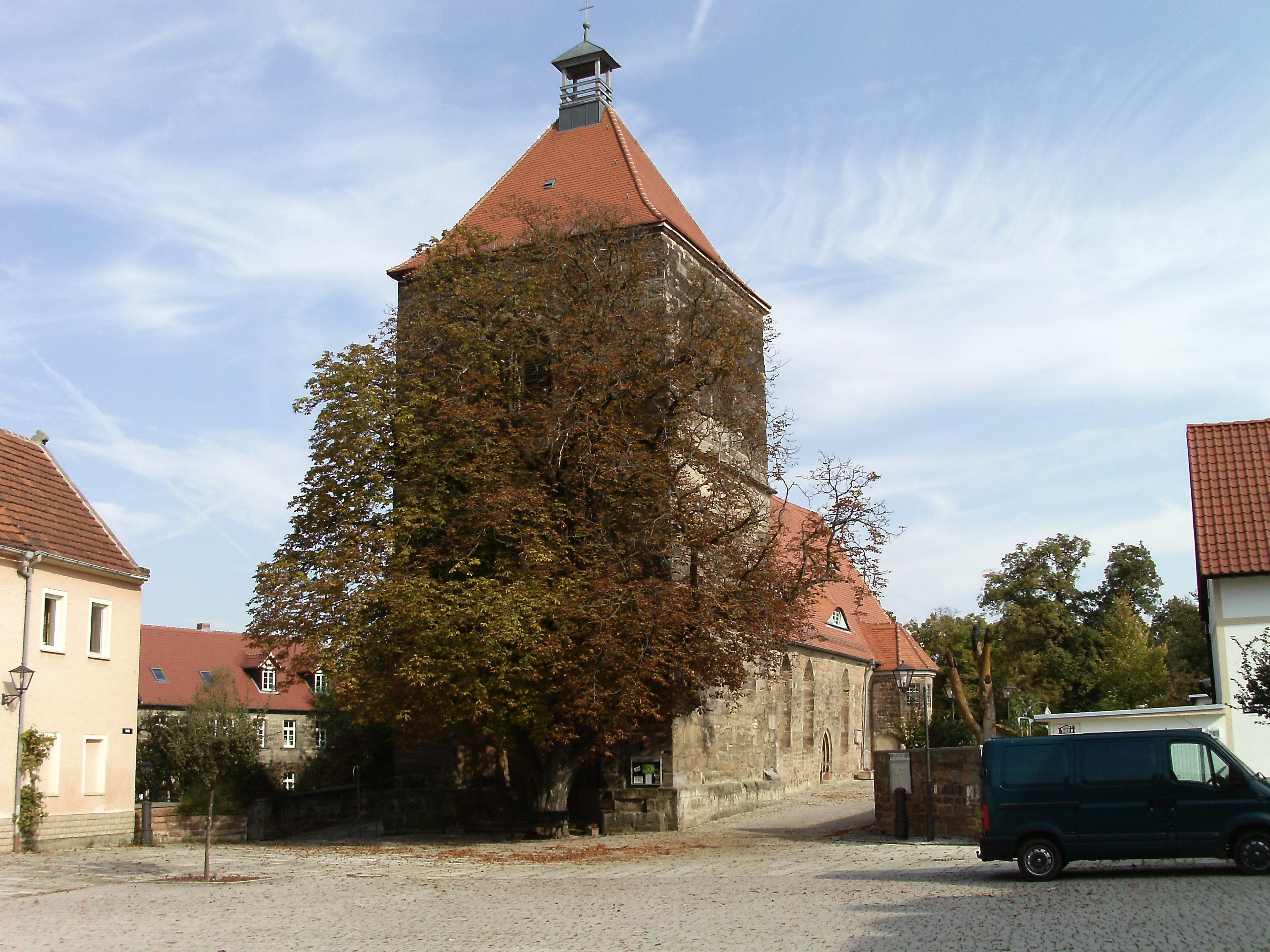 St. George's Church in Nebra/Unstrut (district of Burgenlandkreis, Saxony-Anhalt)